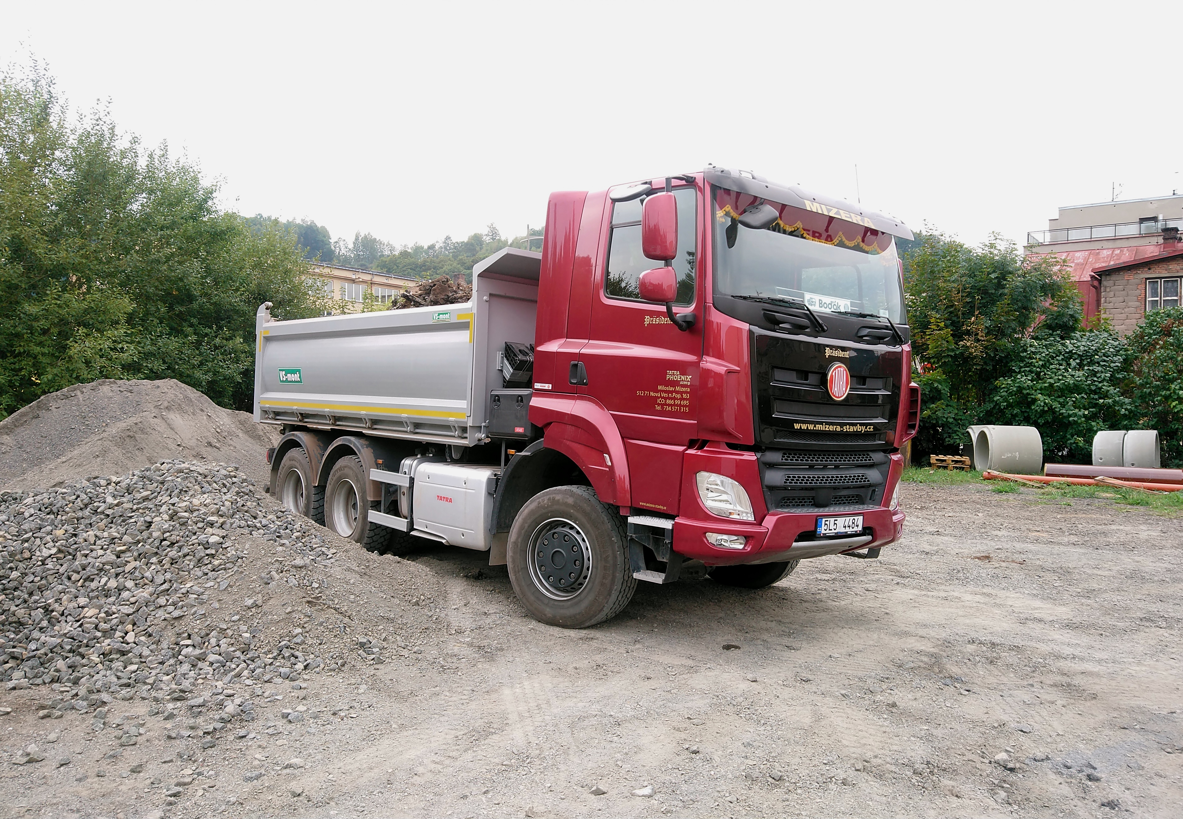 Tatra 158 Phoenix Euro 6 ve službách stavební společnosti Mizera Lomnice nad Popelkou.